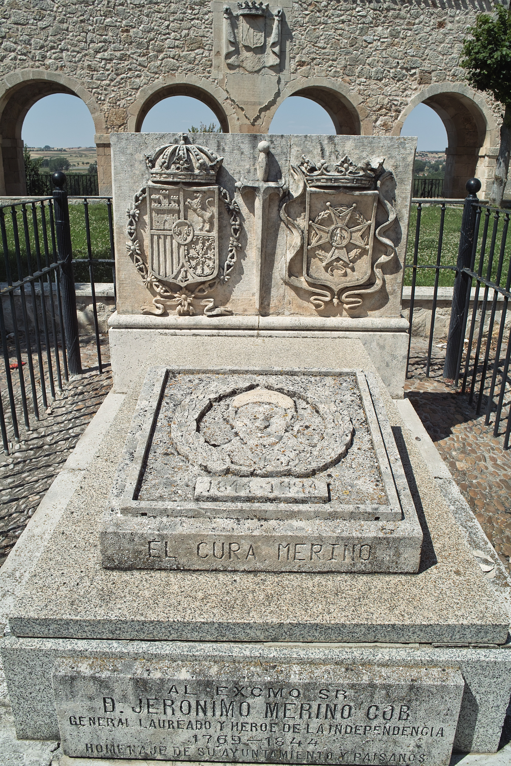 Tomb of the Cura Merino (Priest Merino) in Lerma (Burgos, Spain).